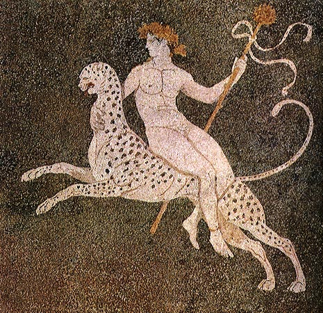 Dionysos riding a cheetah, mosaic floor in the 'House of Dionysos' at Pella, late 4th century BC, Pella, Archaeological Museum.